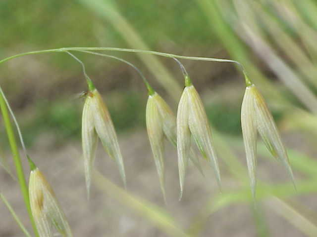 Avena fatua, Poaceae, Image no. 1